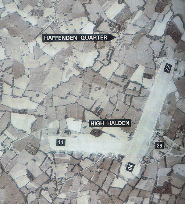 Aerial photograph of High Halden ALG Airfield, England.